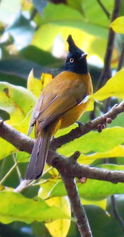 At Kuldiha Wildlife Sanctuary, Odisha, India on 24-12-2012 Birds, fauna, wildlife of Odisha India